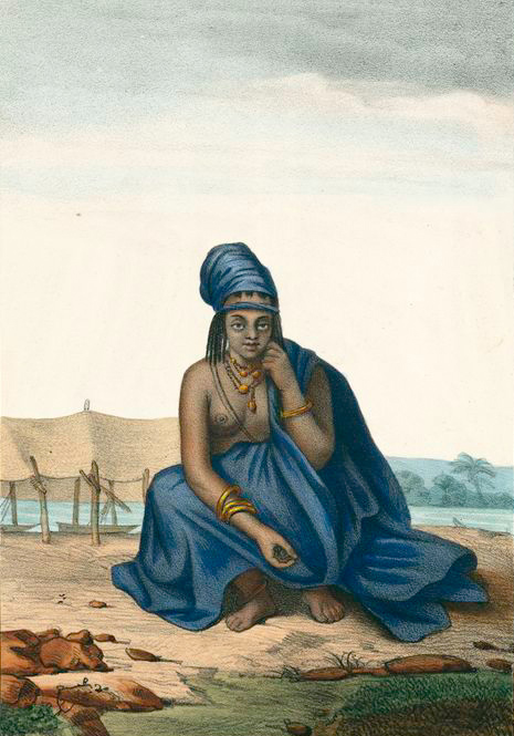 Fulani woman